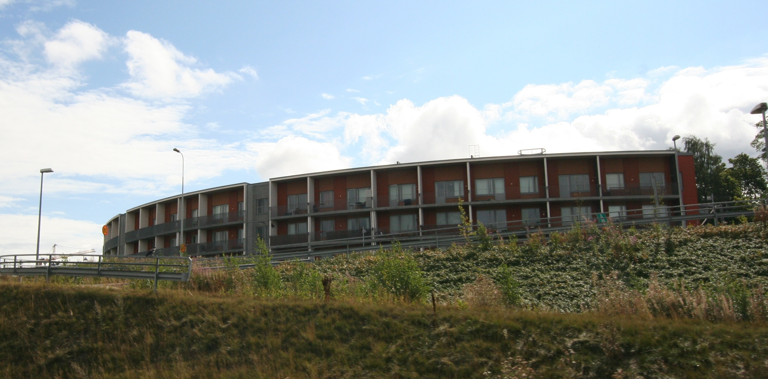 Apartments for young people in Helsinki